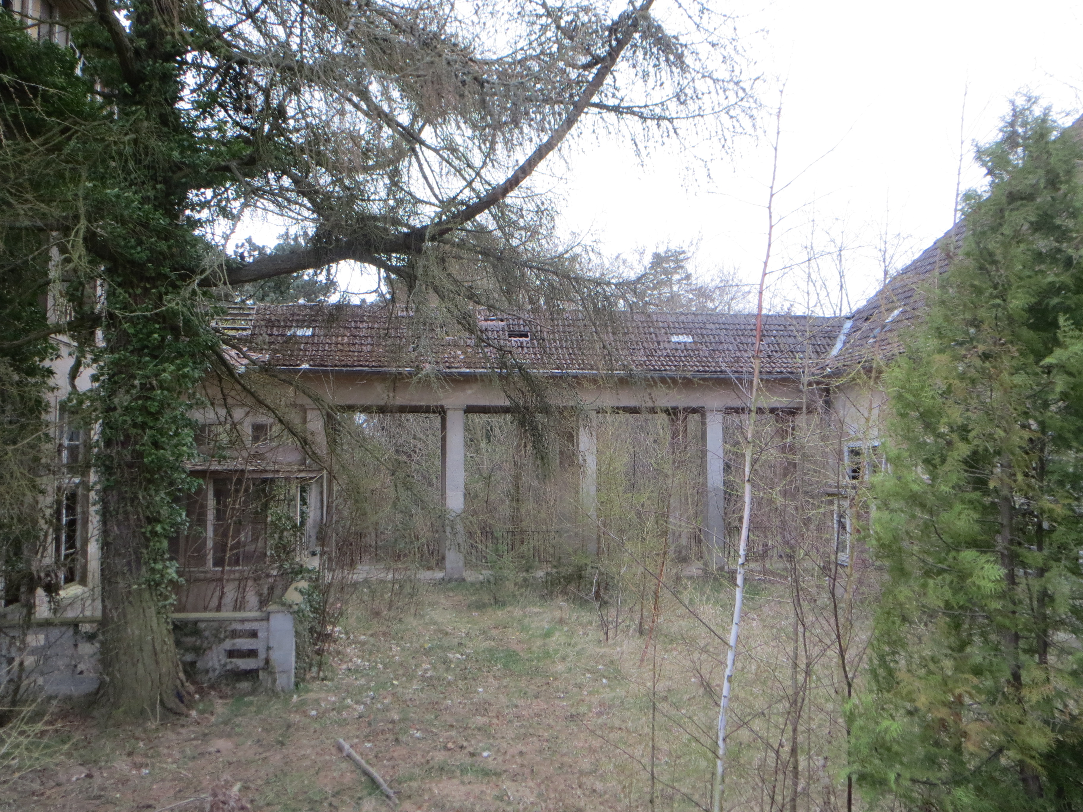 Zinnowitz Kindersanatorium Erich Steinfurth